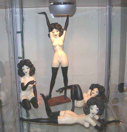 Photograph of figurines from personal collection by Wikipedia contributor lavalamp66